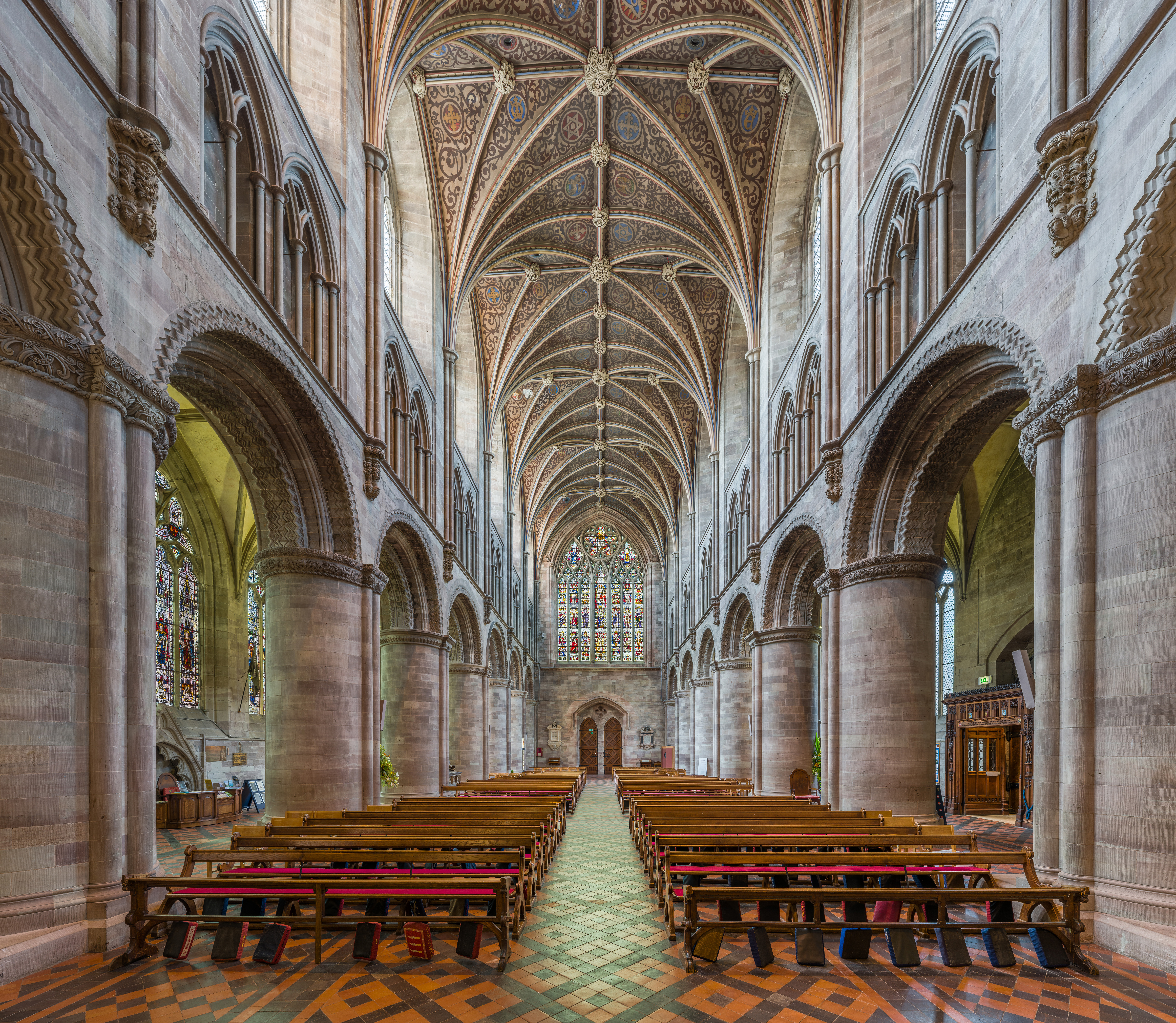 The view looking west towards the western entrance and stained glass windows of Hereford Cathedral in Herefordshire, England.